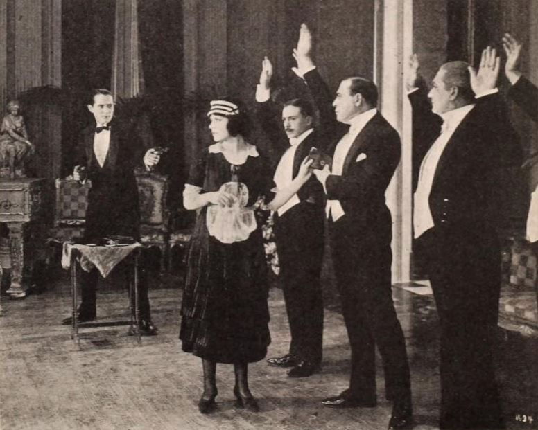 Still from the American drama film Proxies (1921) with Norman Kerry, Zena Keefe, Paul Everton, and William H. Tooker, on page 65 of the April 30, 1921 Exhibitors Herald.